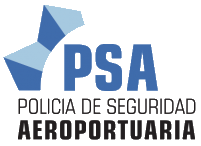 Logo of the Policía de Seguridad Aeroportuaria, a law enforcement agency of Argentina.